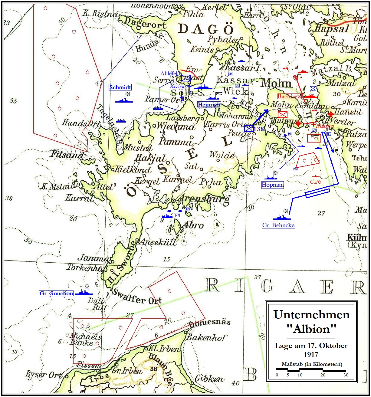 Dislocation of German and Russian units during the invasion of the Baltic Islands, October 13, 1917. Map is based on Andrees Allgemeiner Handatlas, 4. Auflage, Gotha 1899.